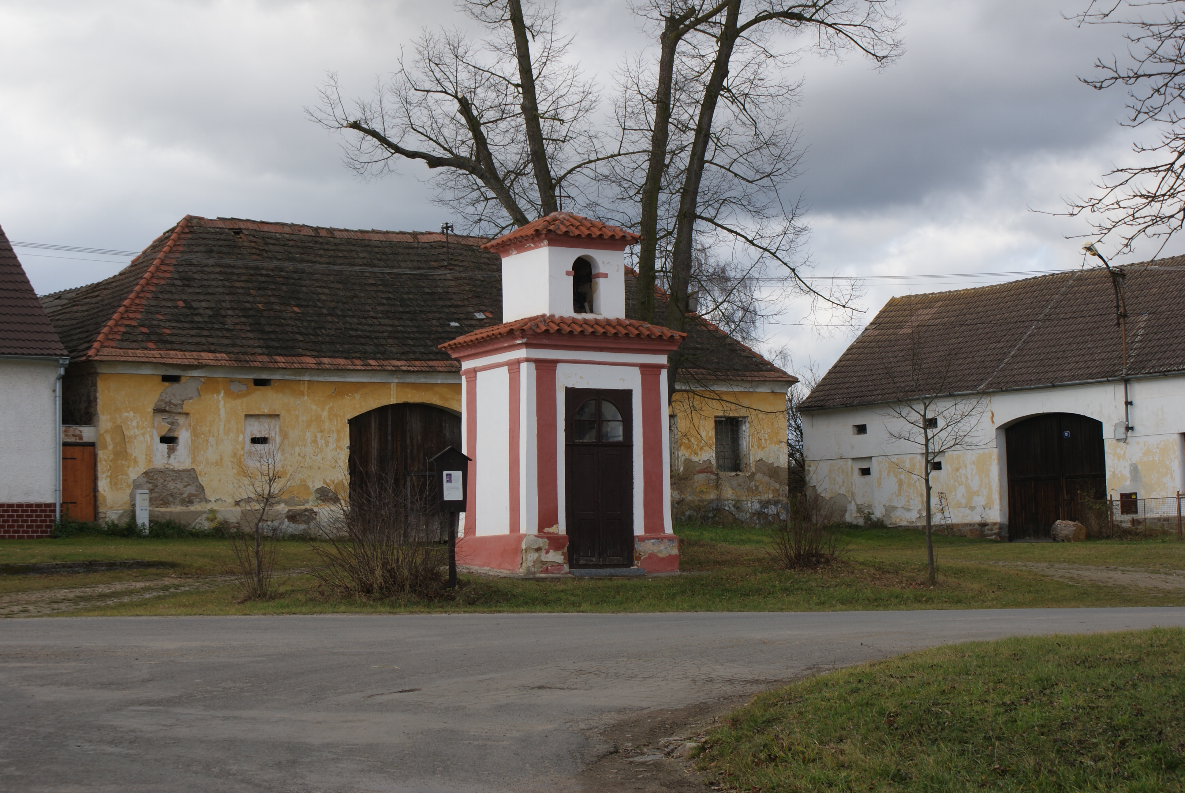 Chapel in Záboří, part of Protivín, CZE